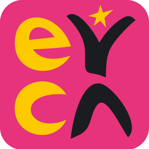 Official logo of the European Youth Card Association (EYCA)